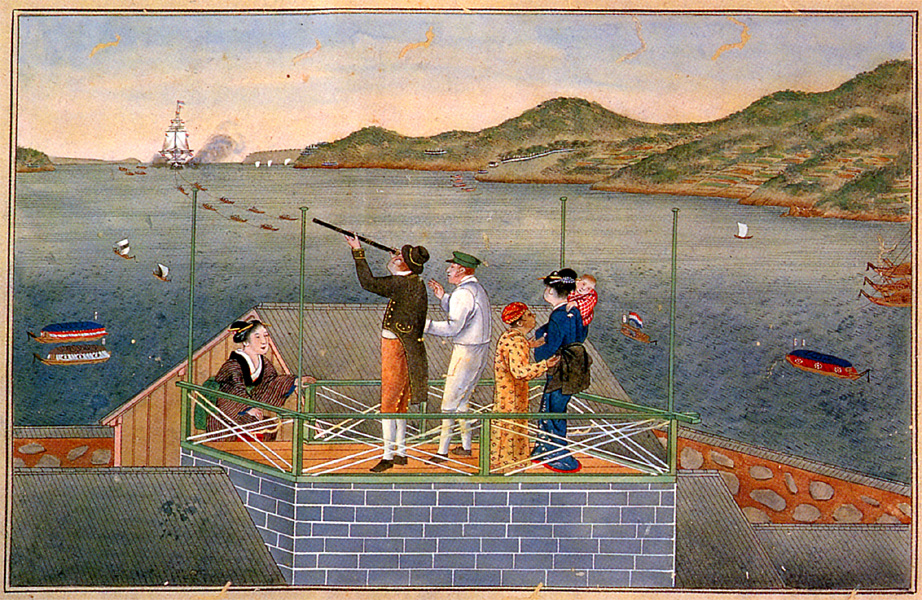 Painting showing Philipp Franz von Siebold with a telescope (teresukoppu), Dutch personnel and Siebolds Japanese wife Kusumoto Otaki with their baby-daughter Kusumoto Ine watching an incoming Dutch sailing ship at Dejima. The ship is towed by many stringed rowing boats.